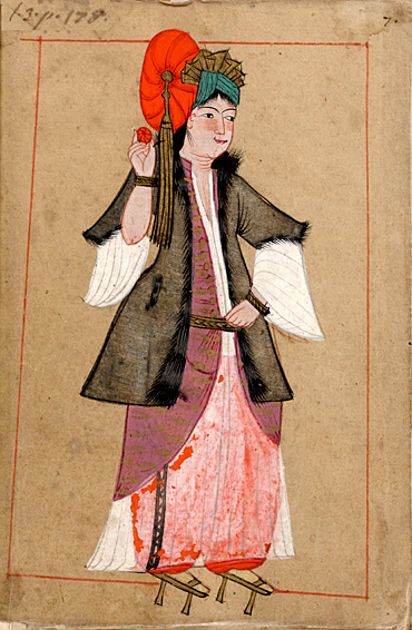 Pictures from the Ralamb Costume Book, 1657